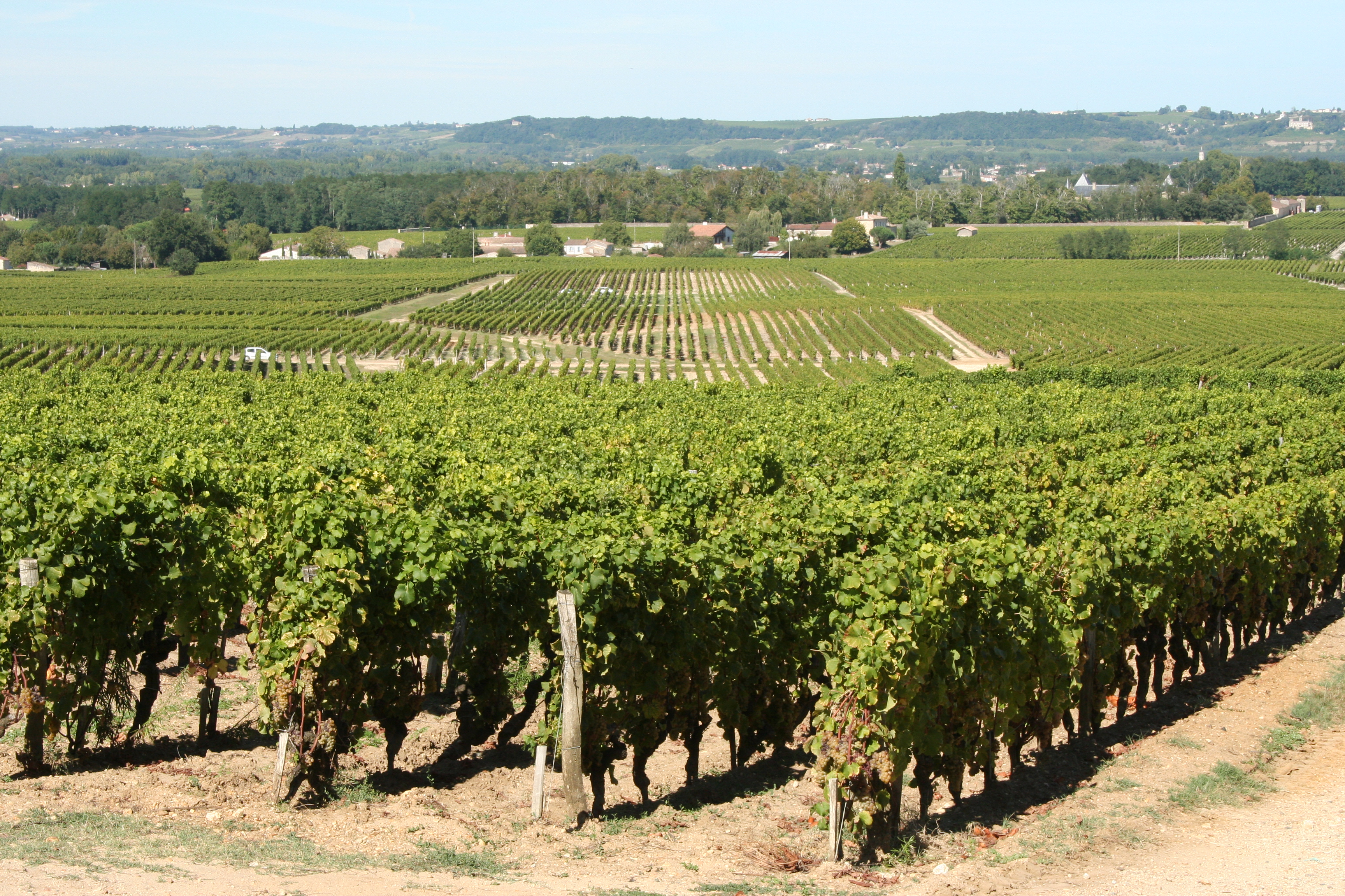 Vineyards in the French wine region of Bordeaux